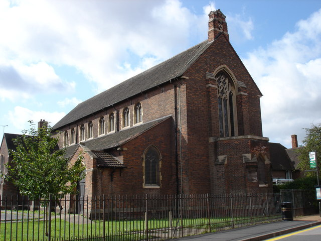 The King's School, Bathley Street, Nottingham, England, seen from the northeast. Built in 1915 as St Faith's parish church.